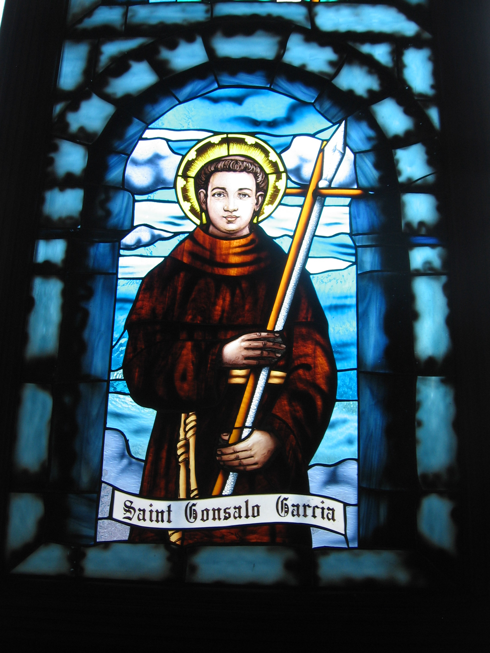 Gonsalo Garcia is a Franciscan saint from Vasai (Bombay), who died a martyr for the faith in Japan (window pane in the Cathedral of Pune)